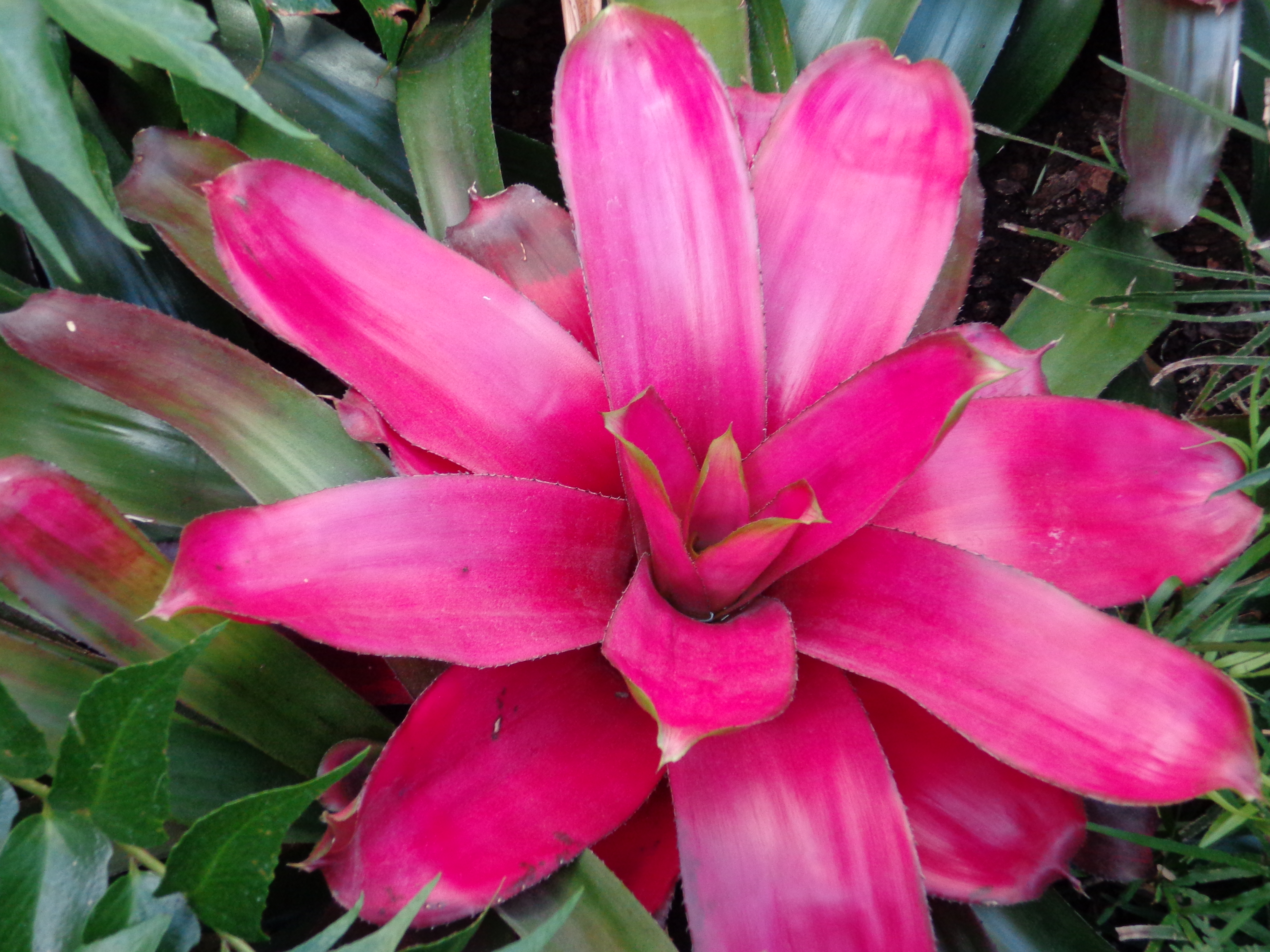 Bromeliad @ US Botanic Garden. It is not the flower it is the habitus with leaves of that plant. It maybe a Neoregelia cultivar.